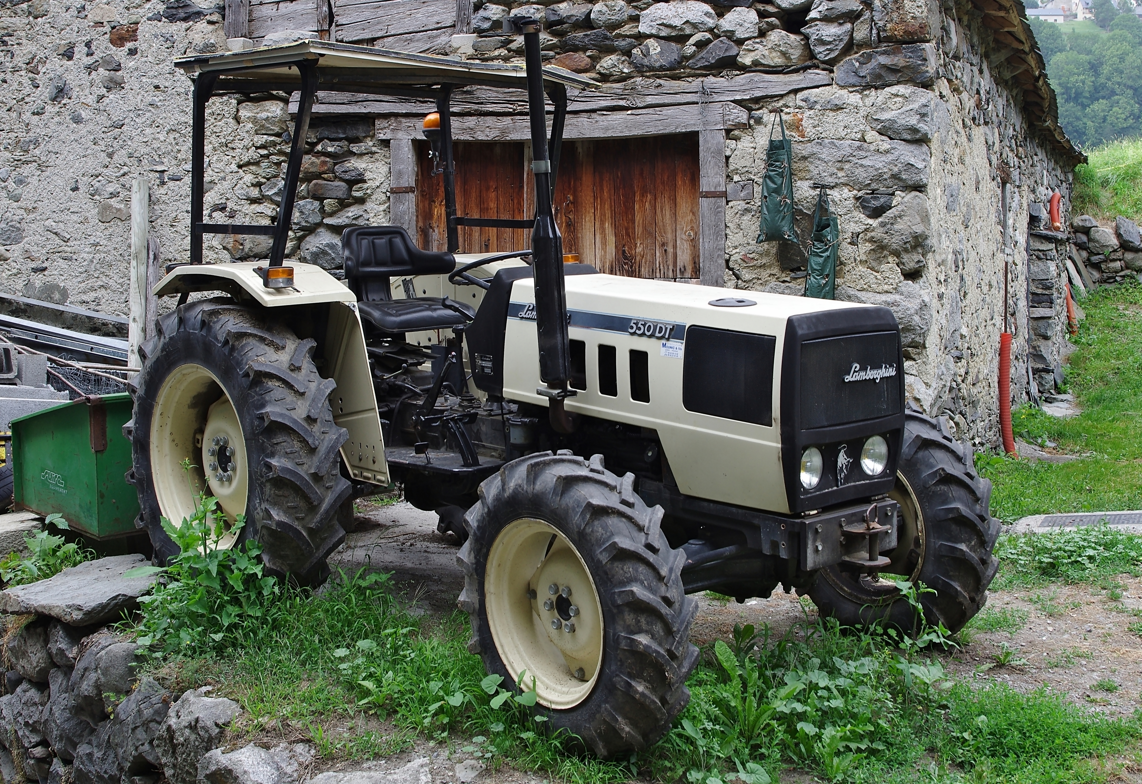 Tractor Lamborghini 550 DT near a barn, valley of Barèges, France.